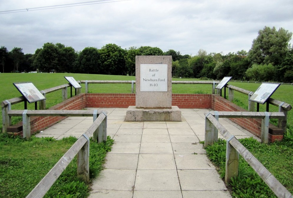 Monument commemorating the Battle of Newburn Ford, near to Newburn, Newcastle Upon Tyne, Great Britain. In 1640 the tidal River Tyne could be forded at three points near Newburn. The Battle of Newburn Ford was a religion inspired battle prior to the English Civil War in 1640. At the battle, a Scottish Covenanters army of 20,000 men defeated a much smaller English force attempting to defend the fords, then went on to capture Newcastle. During the battle, the Scots used the height of the church tower to mount a canon Link Link My photo is identical to NZ1565 : Site of battle of Newburn Ford which is in the neighbouring grid square to the west (and only seen by me later). The monument is very close to the dividing grid line.